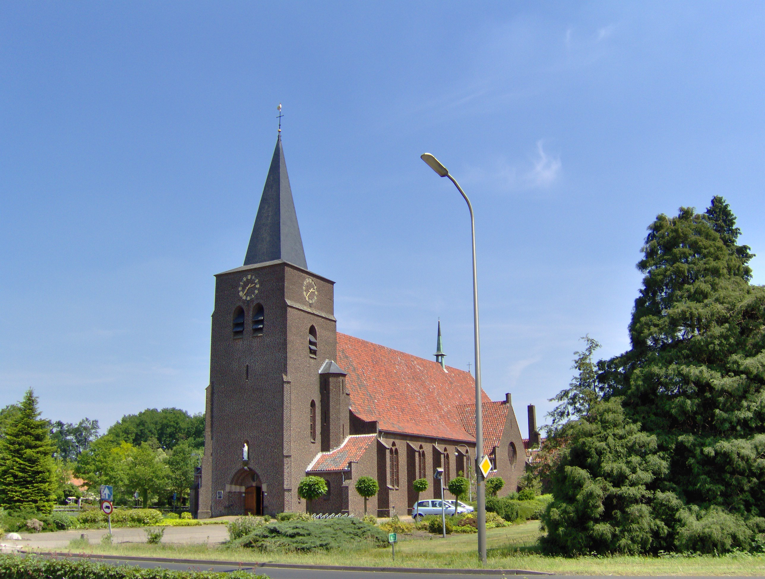 The Heilige Blasiuskerk, Saint Blaise Church of Beckum Location: Beckum, a village in the municipality of Hengelo, Netherlands